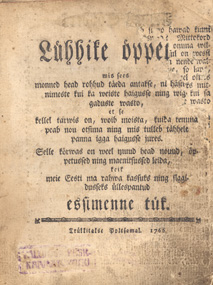 The title page of Lühhike öppetus by Peter Ernst Wilde. Originally published in 1766, it is in public domain. This electronic image was prepared by Estonian National Library.